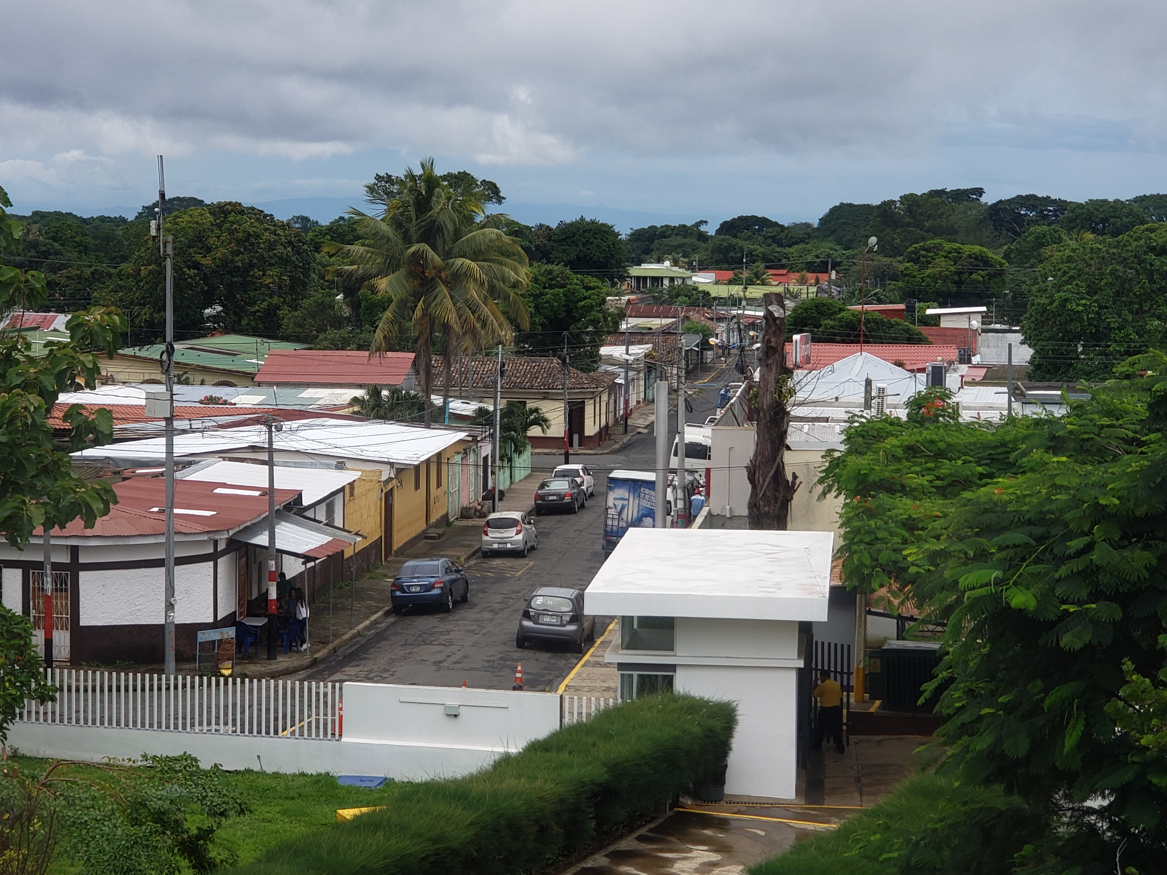 San Marcos, Carazo, Nicaragua, seen from above